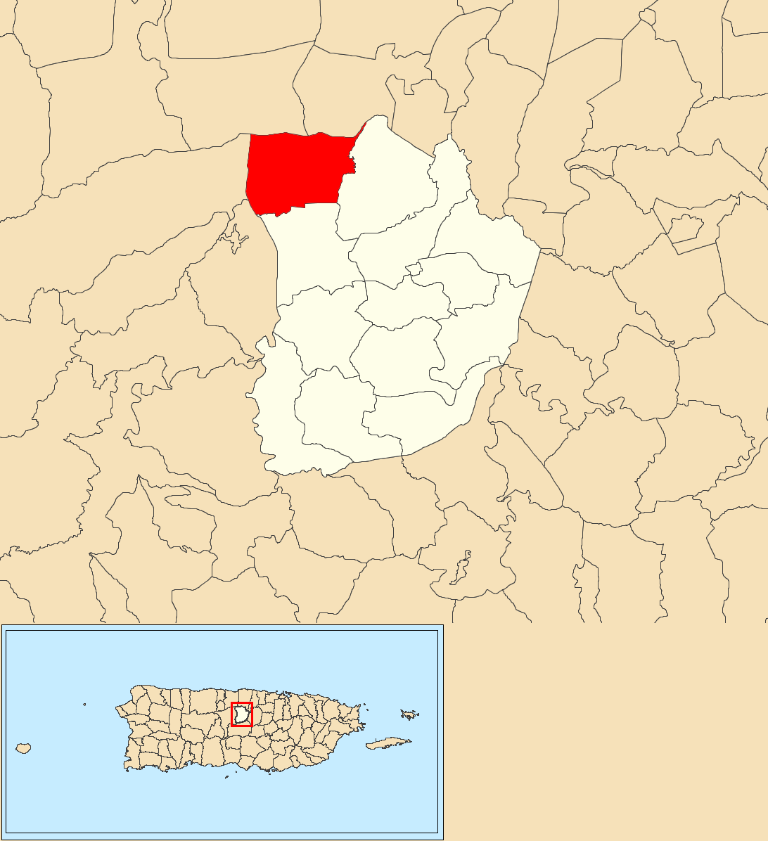 Barahona, Morovis, Puerto Rico locator map